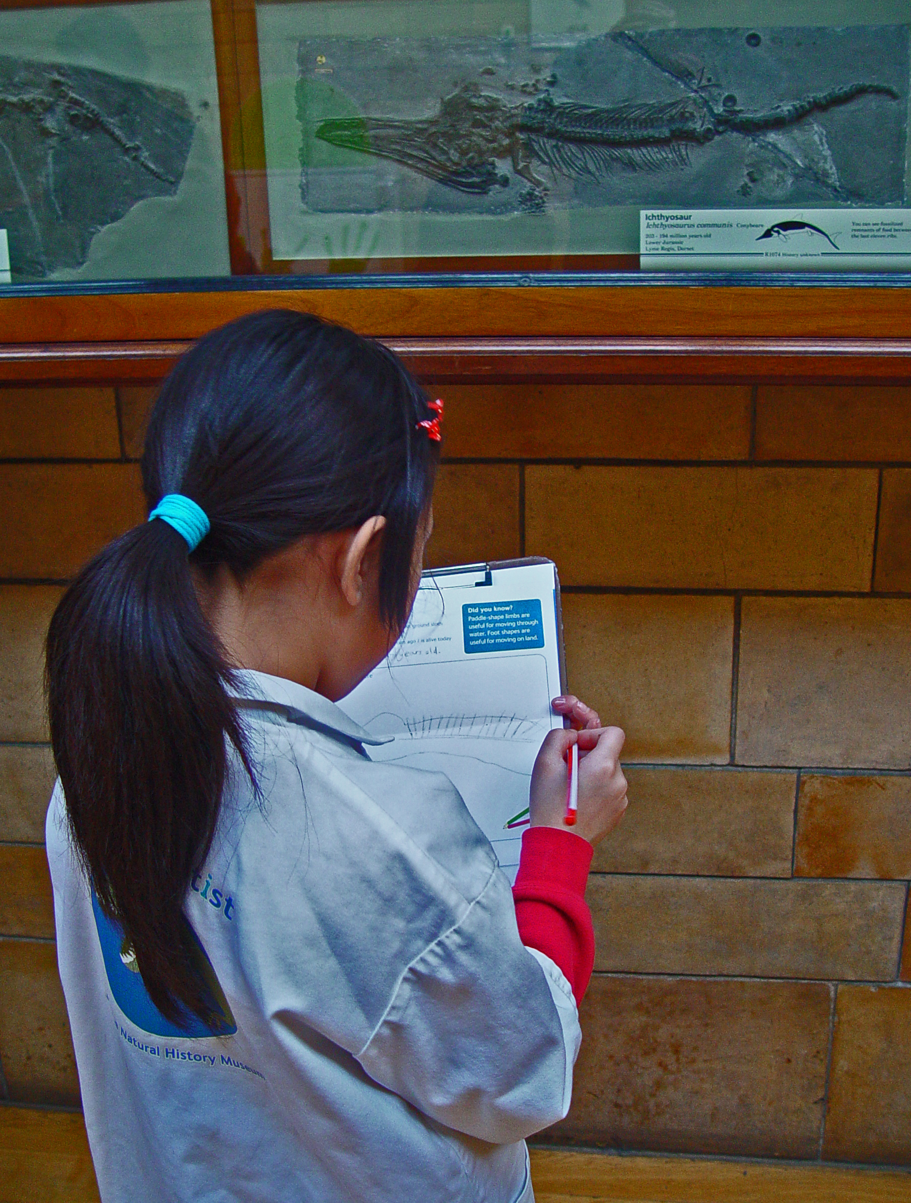 A very young scientist sketching an Ichthyosaurus fossil displayed in the Natural History Museum, London